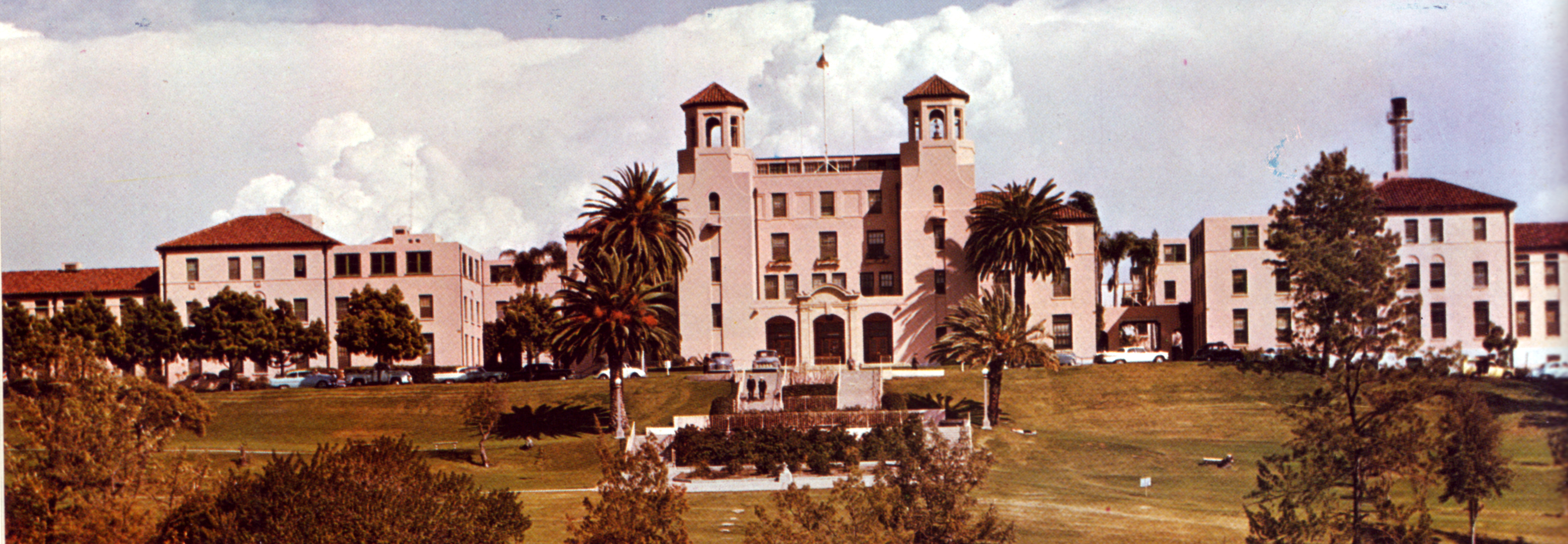 The Naval Hospital San Diego opened in the 1920s. It was of Spanish Colonial Revival design with a series of separate wards around an interior courtyard all connected to an administration building via two-level walkways. Outside of this complex was a Navy chapel. A large addition to the complex was contructed in the early 1950s housing more rooms and updated operation facilities. A new hospital was constructed in the early 1980s, and the oldest portion was returned to the City of San Diego. The city intended to demolish all of the the old buildings. Ultimately the administration building was kept to house the headquarters of the San Diego Park District and the chapel was given over for use a veterans museum.